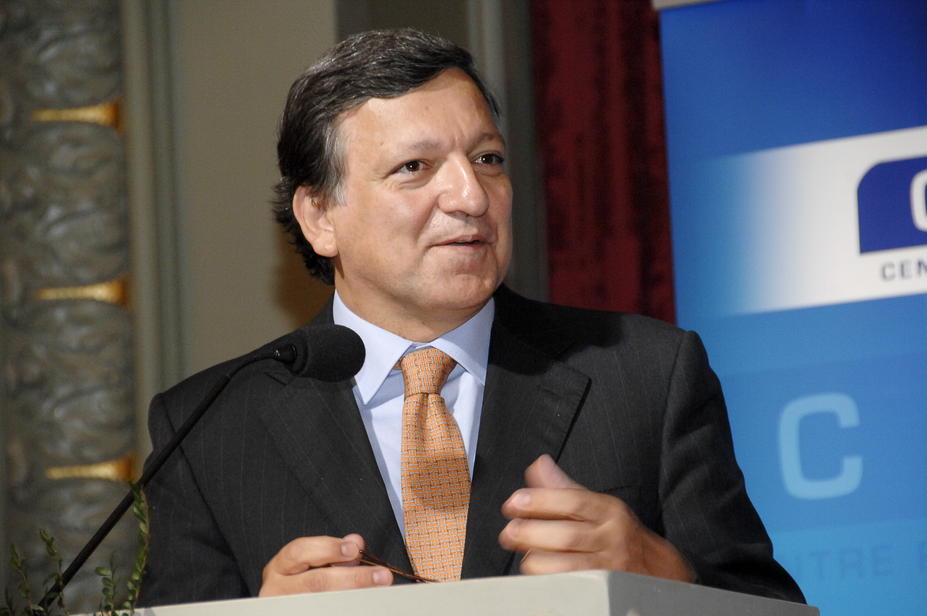 "I Struggle, I Overcome" - book launch